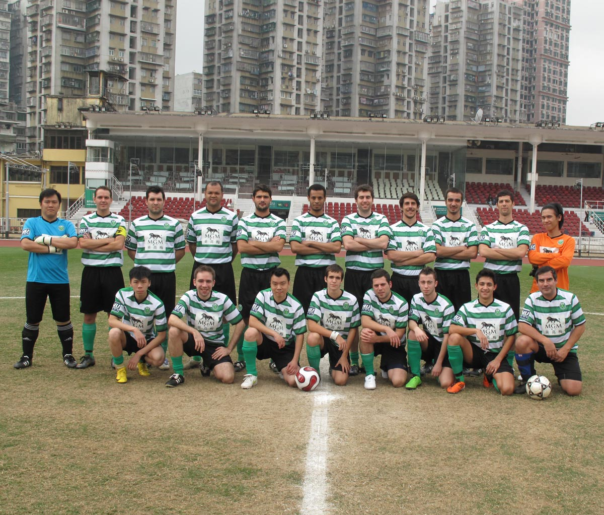 Football team 2010-2011